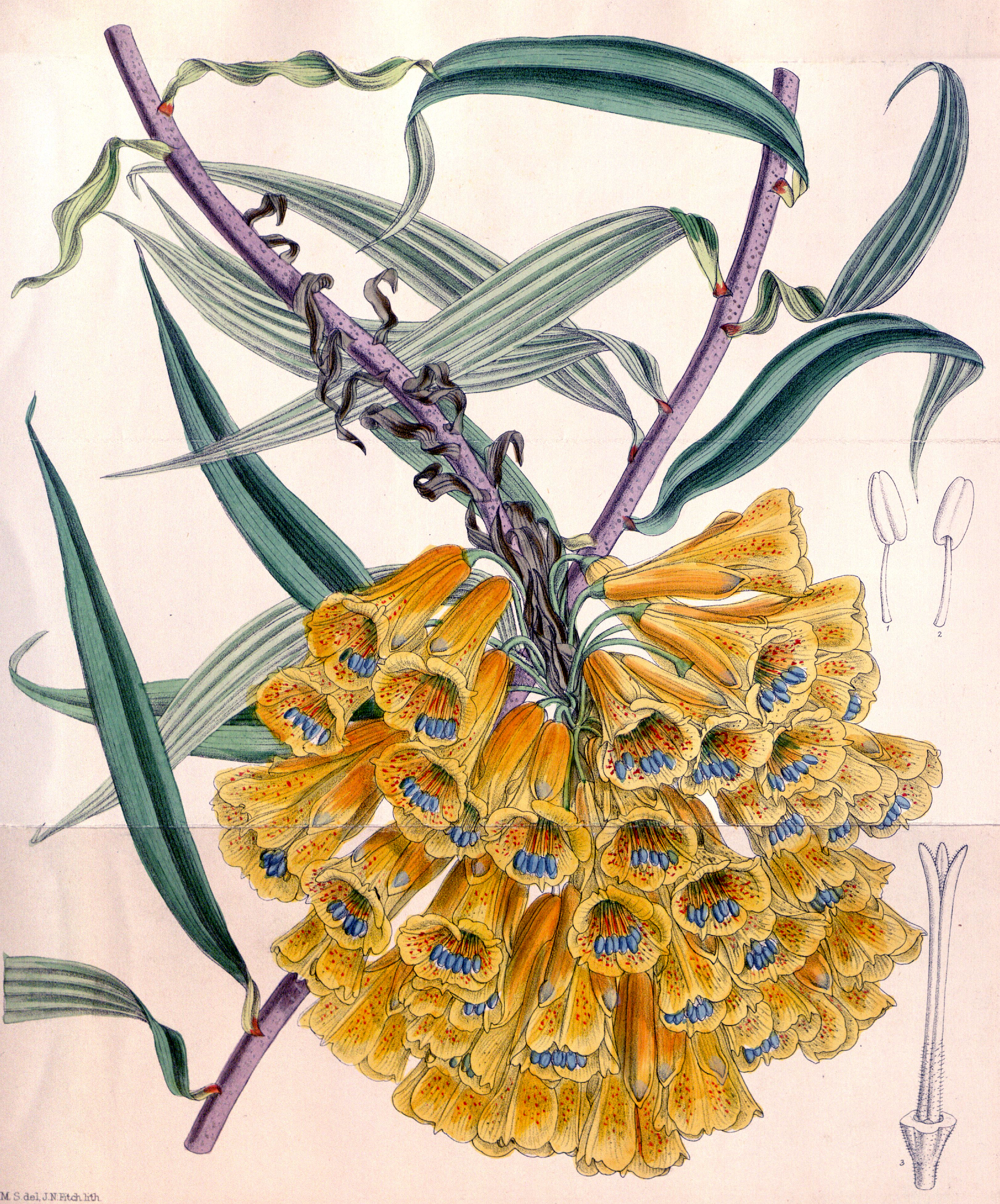 Bomarea multiflora